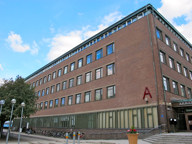 Chalmers University of Technology: Arkitektur (Architecture)